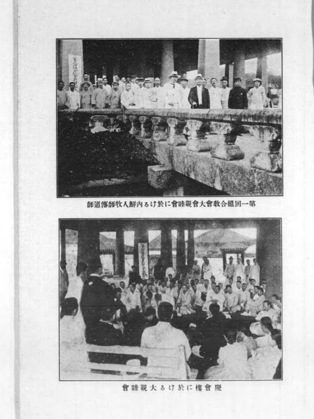 Japan Kumiai Church and Korean.